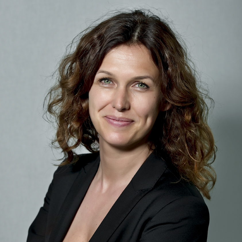 Franka Rolvink Couzy